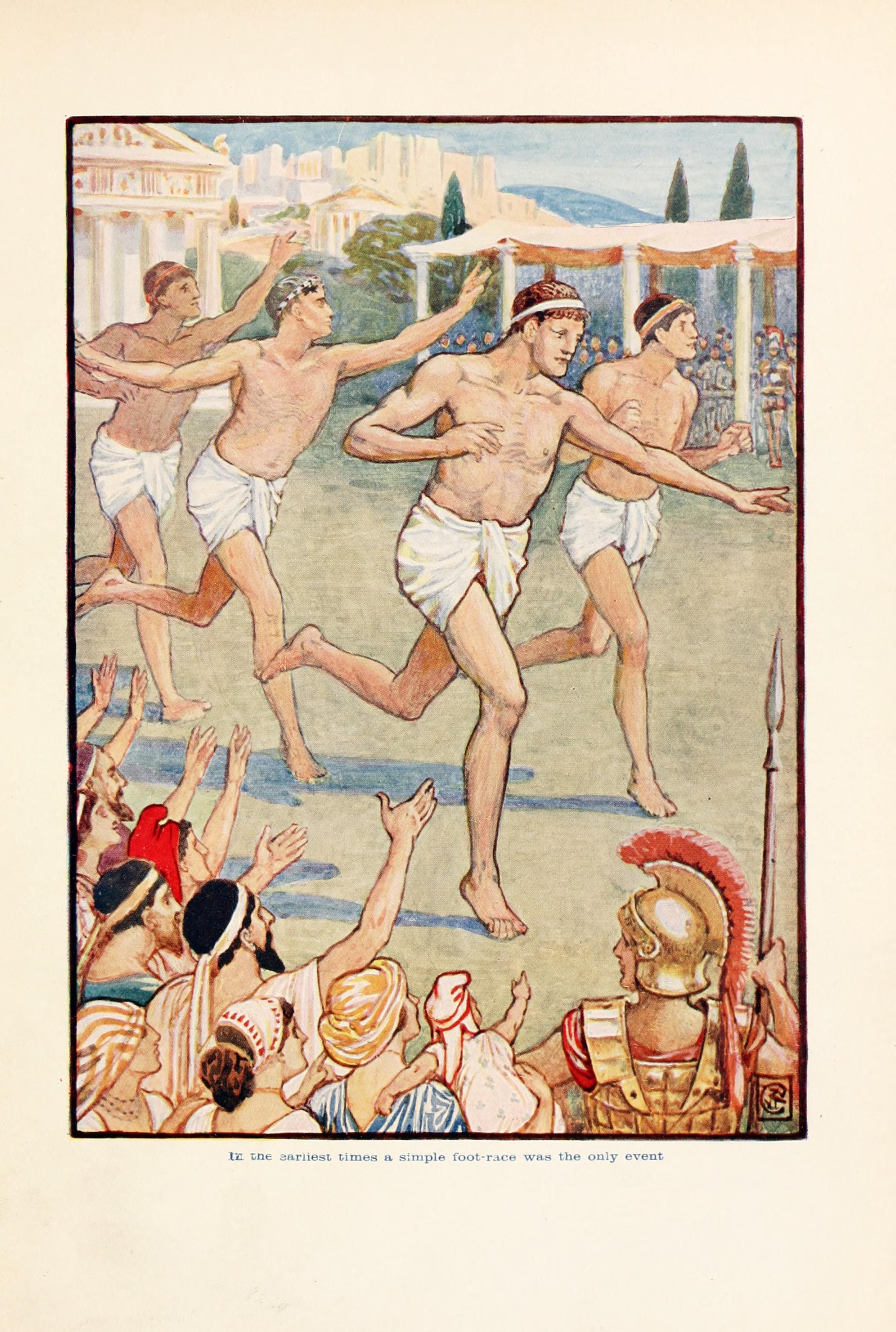 These stories from the history of ancient Greece begin with myths and legends of gods and heroes and end with the conquests of Alexander the Great. The book is accessible and well organized, but it is considerably more detailed than some other introductory texts. It covers Greek history from the age of Mythology to the rise of Alexander, but because of its length we do not recommend it for 5th grade or younger. It is an excellent reference, thoroughly engaging, and a good candidate for a somewhat older student's first foray into Greek history.